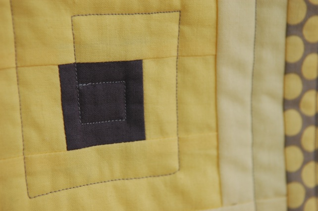 Piece of quilt showing quilting seam as well as seams between fabrics. Original caption: I learn a lot from the spouse. For example, years ago she taught me that quilting isn't the "piecing of fabric together in a pattern", its actually the act of sewing thru many layers of the "sandwich".